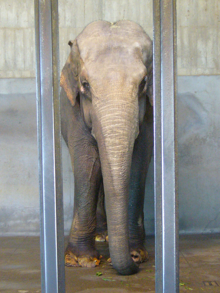 Indian Elephant Suwako at the Kobe Oji Zoo, Kobe, Hyogo prefecture, Japan